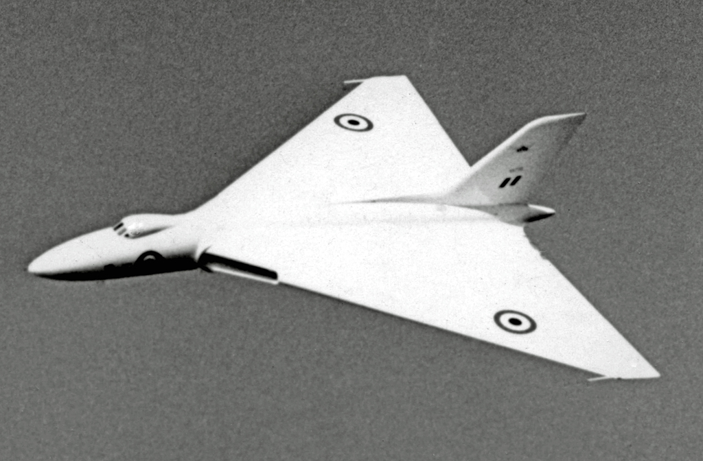 The Avro Vulcan prototype VX770 after re-engining with A.S. Sapphires but retaining the original wing shape. Farnborough 1954 air show.